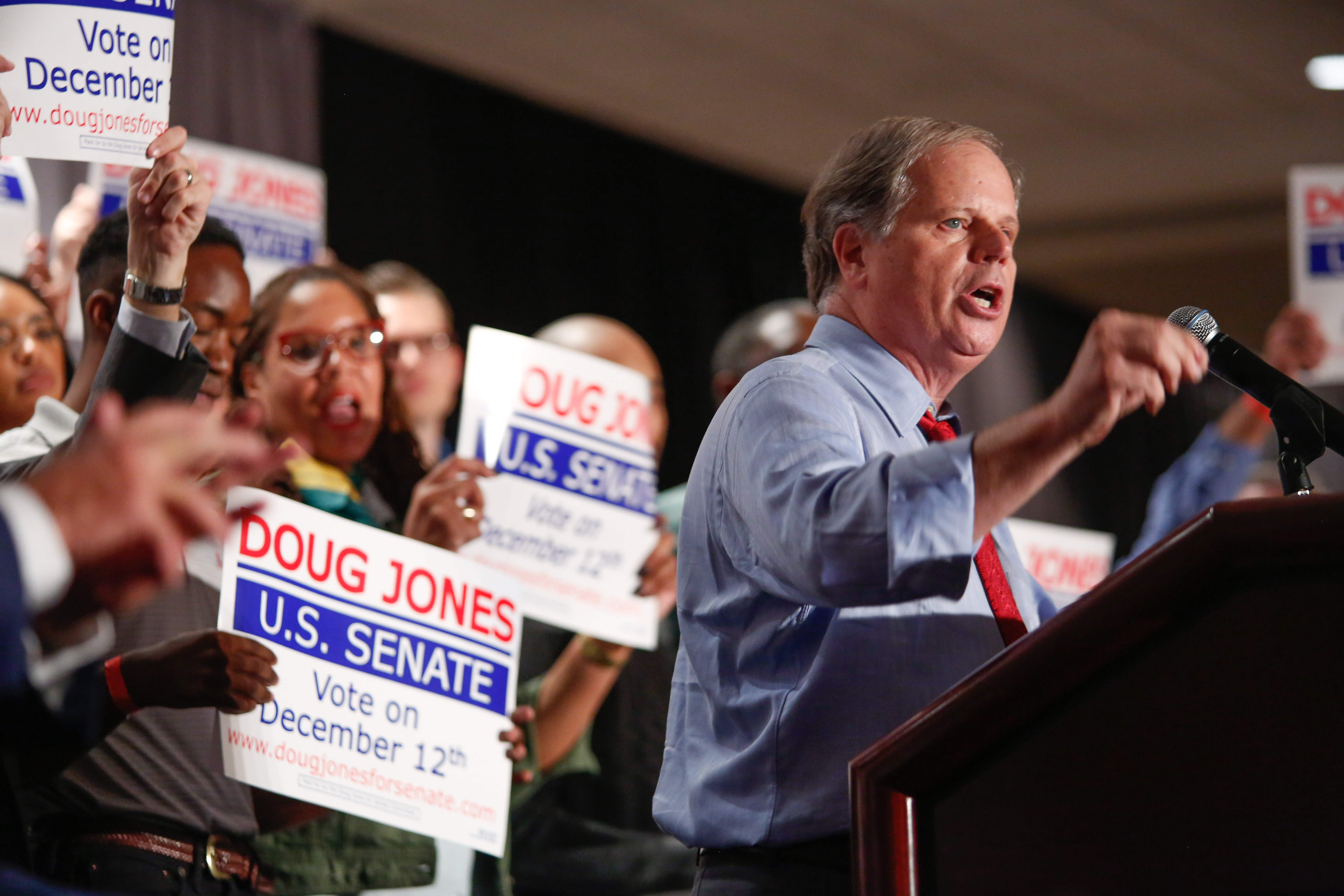 Doug Jones speaking at rally with Vice President Joe Biden